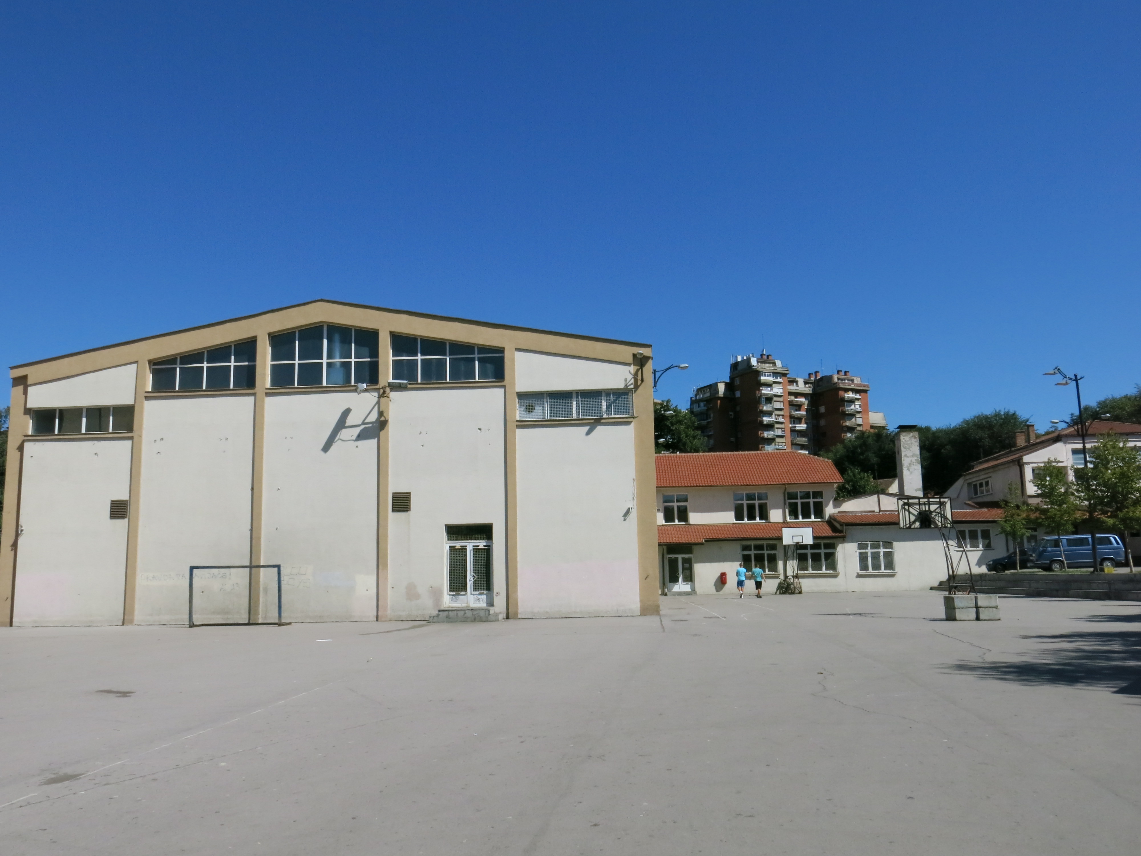 Smederevo, Elementary school Jovan Cvijić